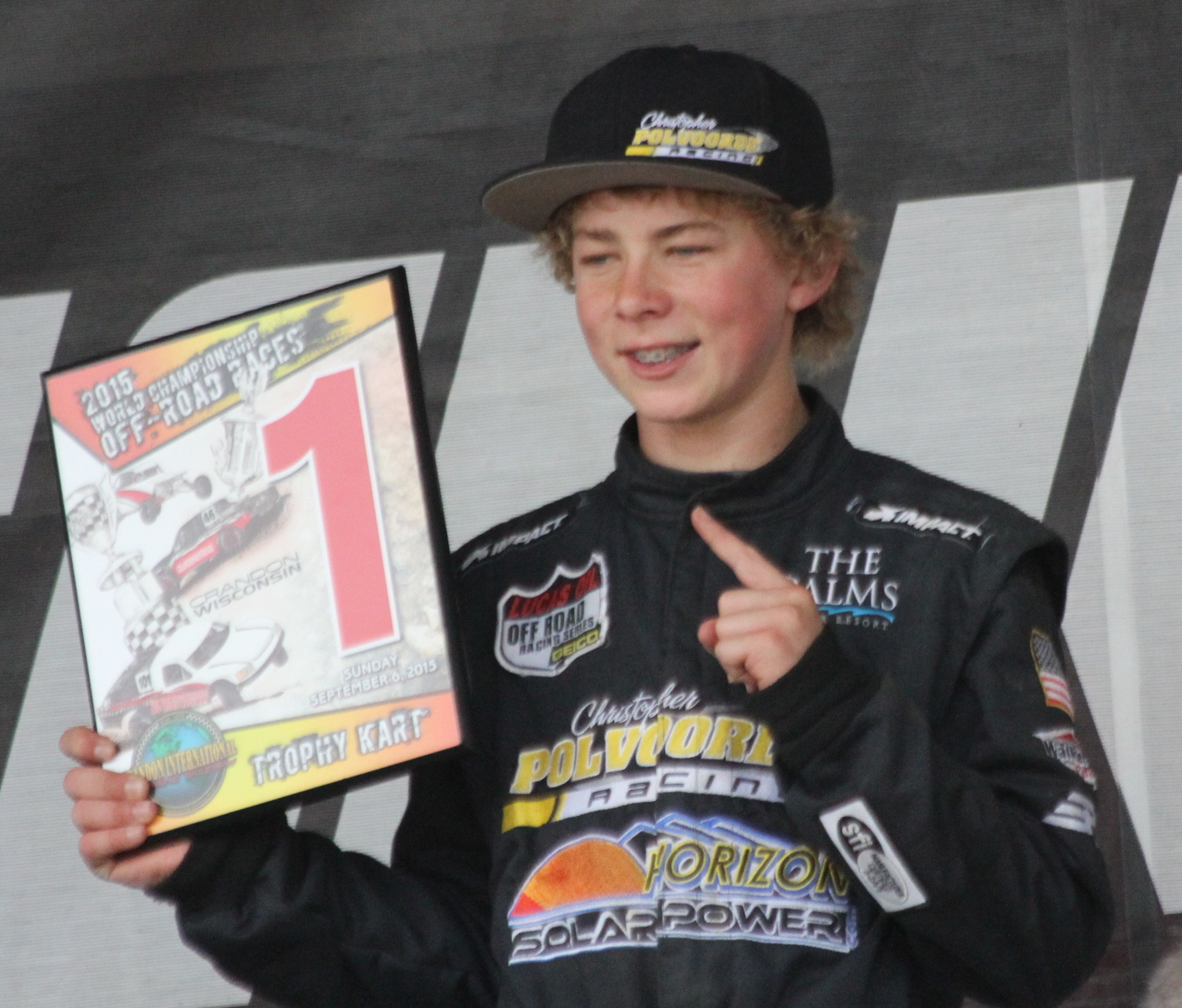 Christopher Polvoorde in victory lane after winning the 2015 Trophy Kart race at Crandon International Off-Road Raceway